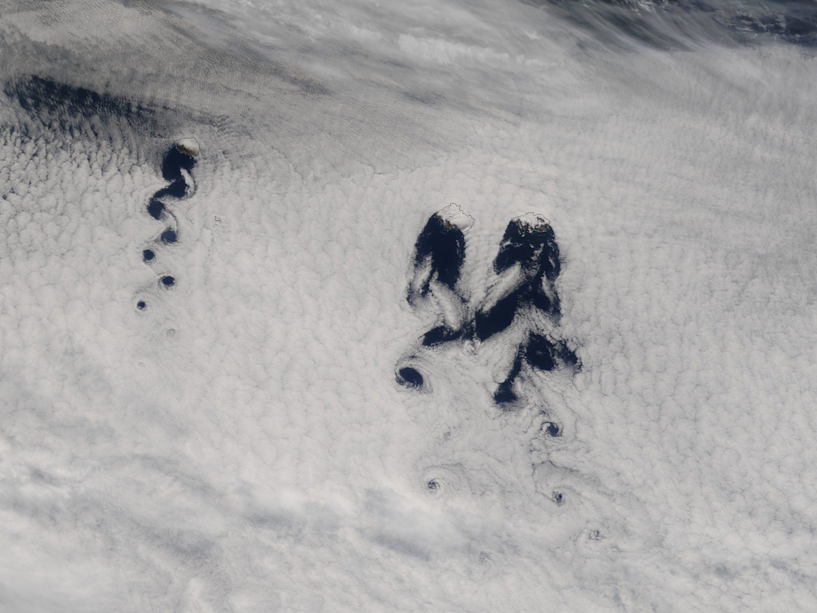 Cloud vortices off the Crozet Islands, south Indian Ocean